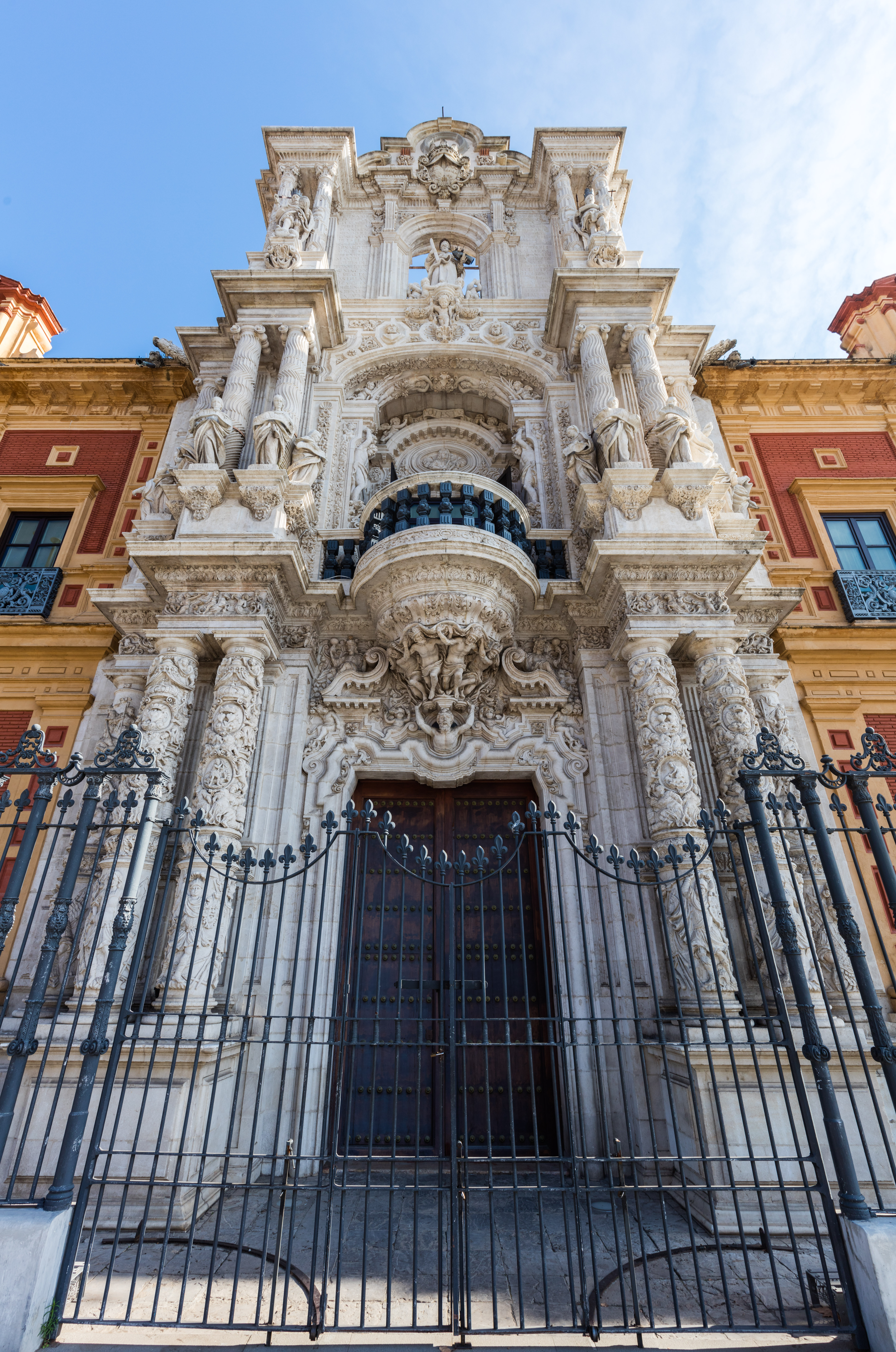 Palace de San Telmo, Seville, Spain